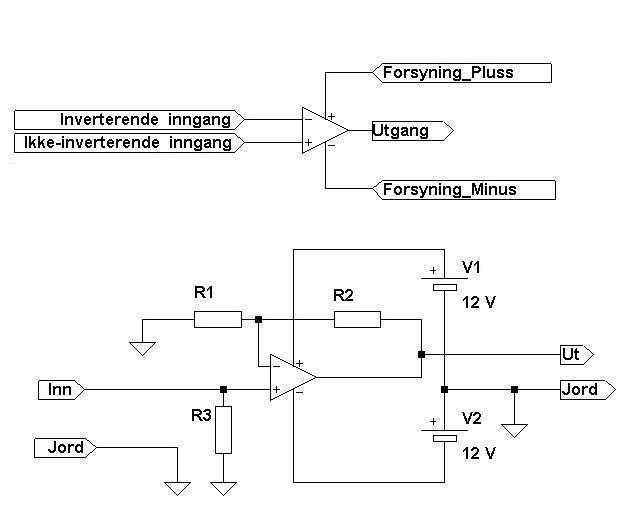 Op-amp symbol and circuit